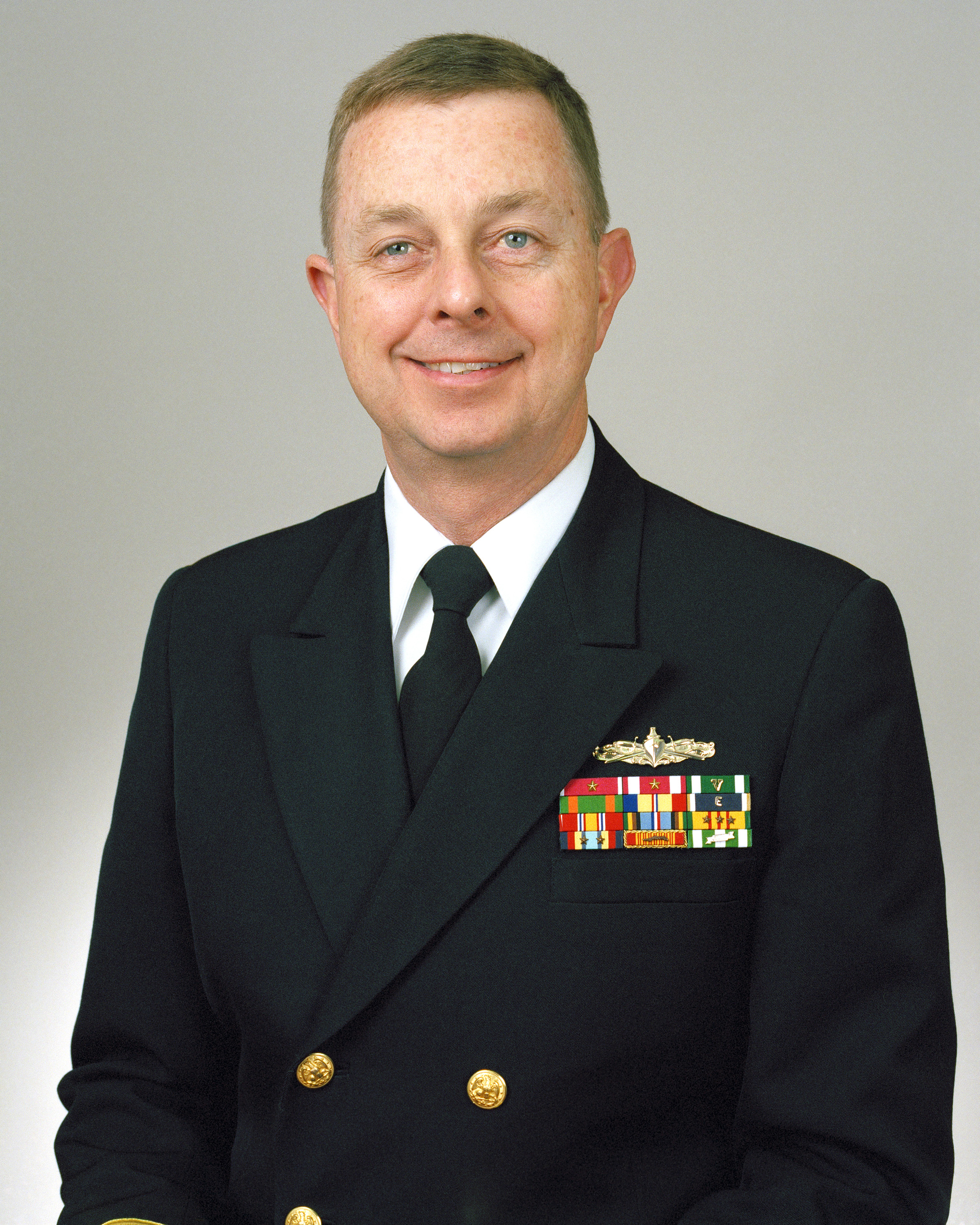 Capt. Lee F. Gunn